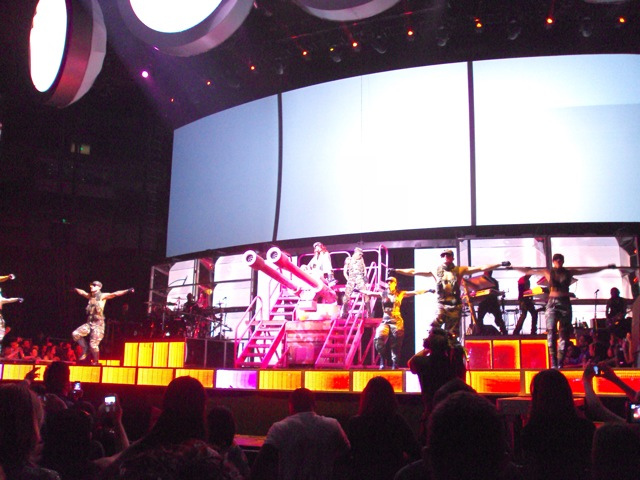 Rihanna Live at Oracle Arena on her LOUD Tour.